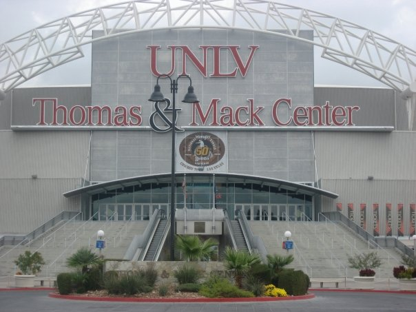 Thomas & Mack Center